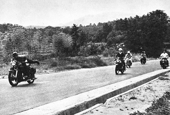 Kaminari-zoku